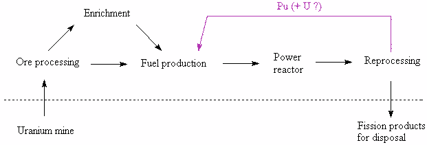 Nuclear fuel cycle with Pu reuse